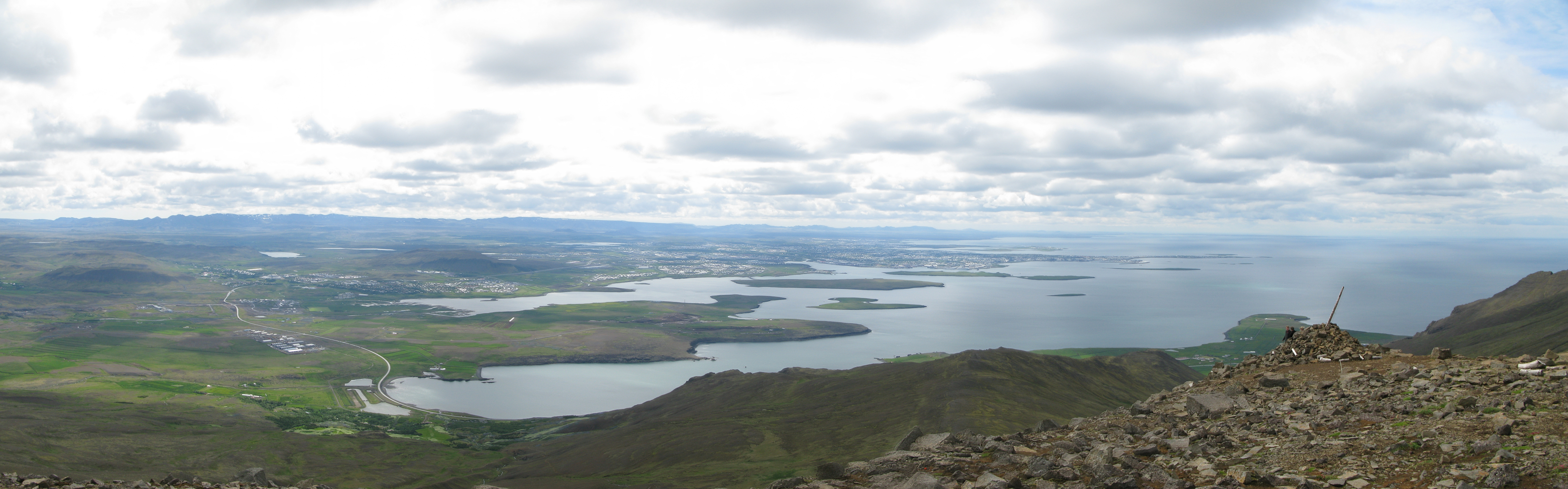 Panoramic view of Reykjavík, as seen from the Þverfellshorn peak of Esja. Note that camera location is approximate.